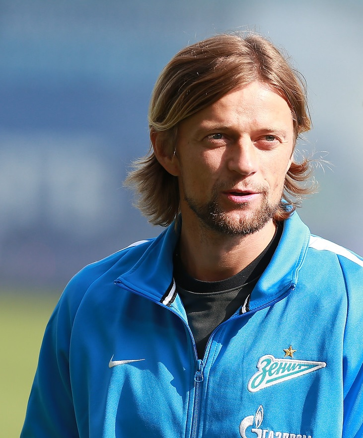 Anatoliy Tymoshchuk as a coach of FC Zenit Saint Petersburg before the game against FC Dynamo Moscow.